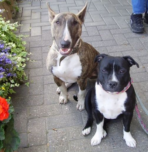 Bull Terrier and Staffordshire Bullterrier